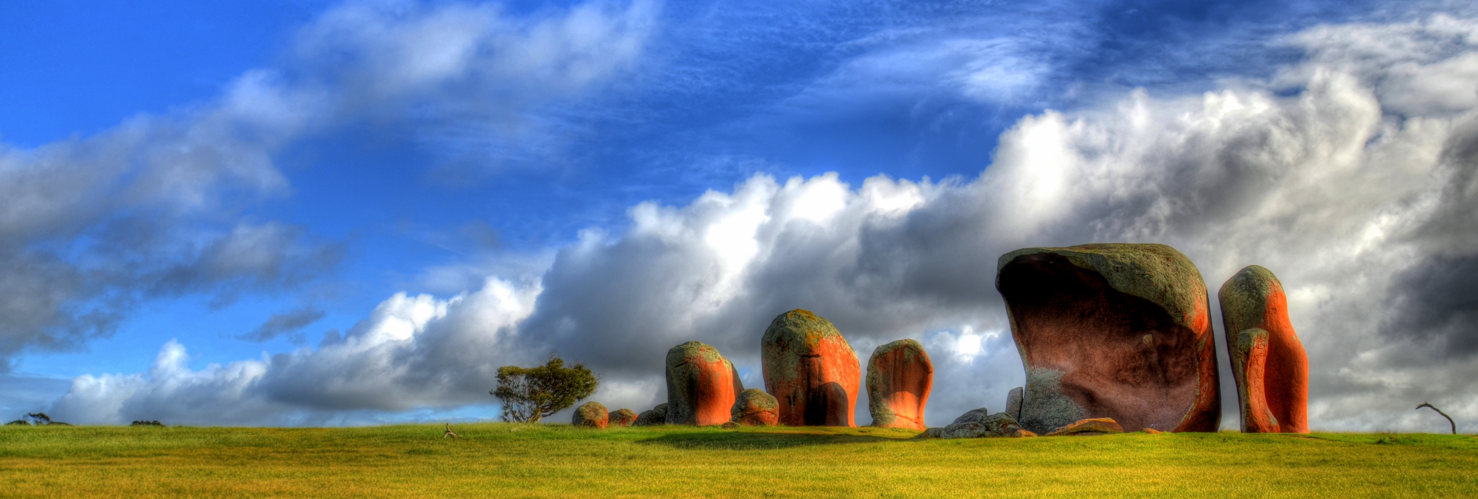 Half an hour from Streaky Bay are these inselberg granite rock formations. The tallest in the image is approximately 8 metres high.